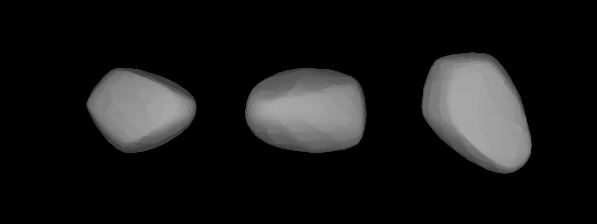 A three-dimensional model of 201 Penelope that was computed using light curve inversion techniques.